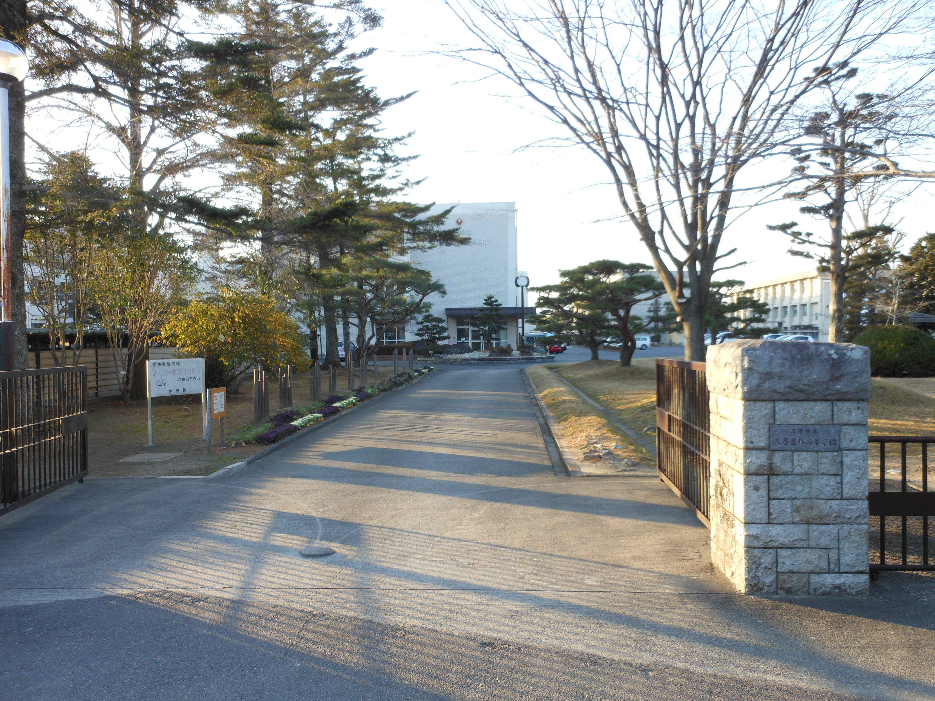 This is a gate of Mie prefectural Hisai Agriculture and Forestry high school in Tsu, Mie, Japan.